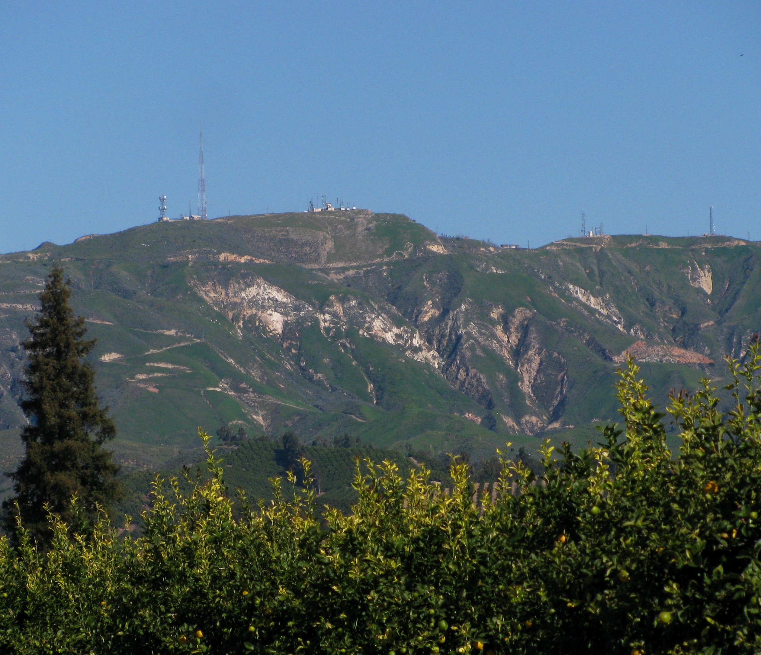 South Mountain — showing part of the South Mountain Oil Field near the ridgetop. Southeast of Santa Paula, in Ventura County, California Photo by self, GFDL/equiv.